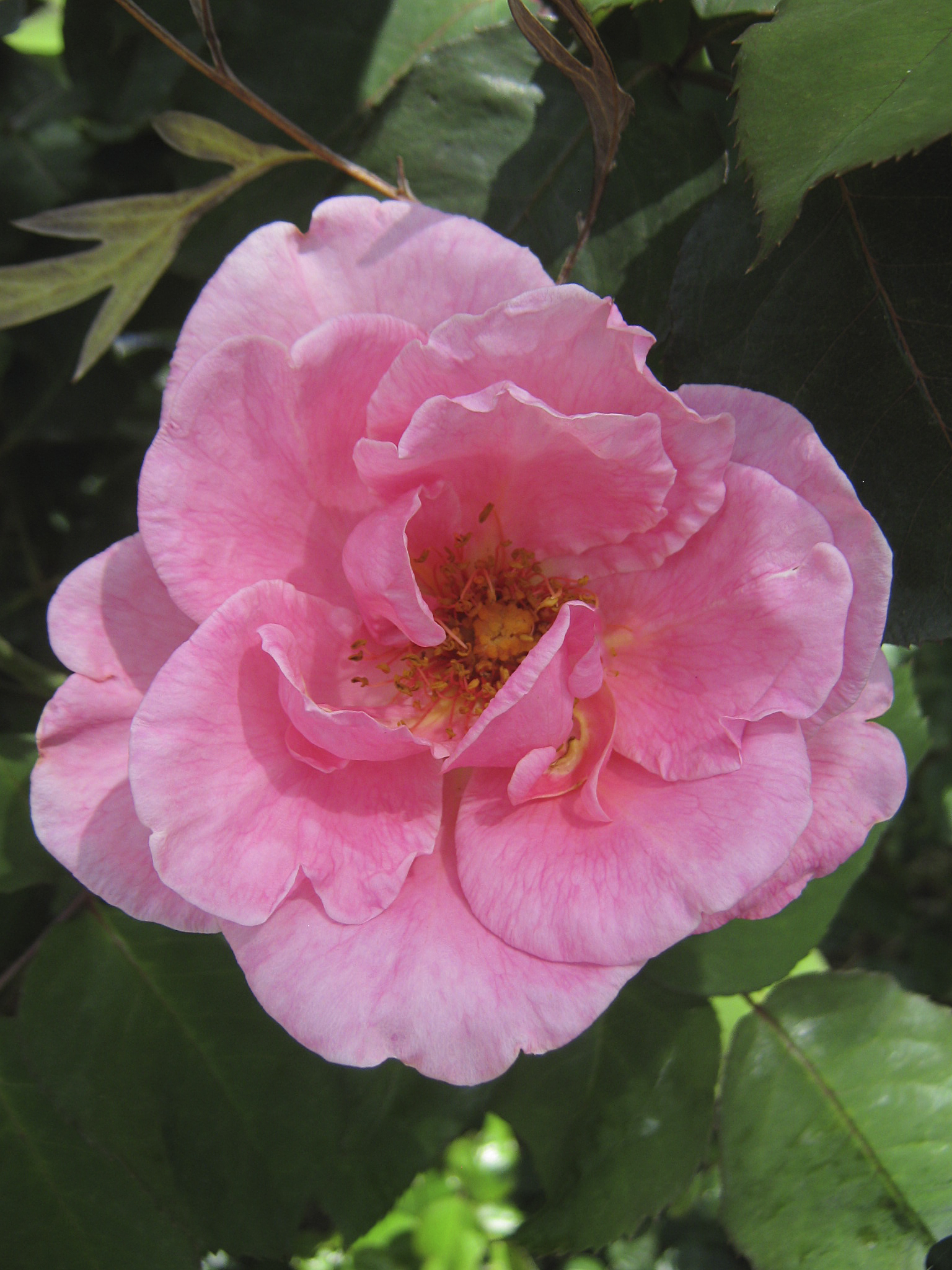 Rose 'Lady Mann', Hybrid Tea by Alister Clark 1940; Photographed in the Alister Clark Memorial Rose Garden, Bulla, Victoria